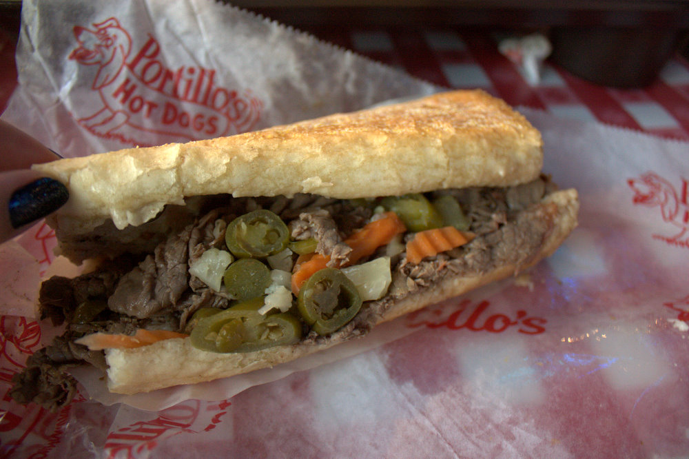 An Italian Beef Sandwich from Portillo's Hot Dogs Chicago restaurants.